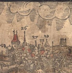 Church of Saint Jacob in 1611 (No 26) in the picture of Jan Willenberg